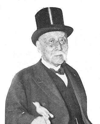 Nagakoto Asano